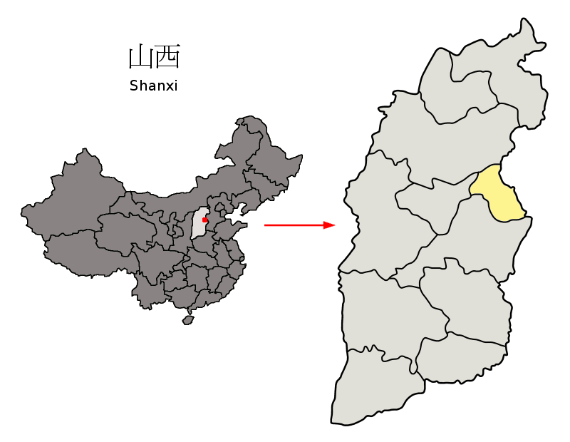 Location of Yangquan Prefecture (yellow) within Shanxi Province of China Map drawn in december 2007 using various sources, mainly : Shanxi Province administrative regions GIS data: 1:1M, County level, 1990 Shanxi Counties map from